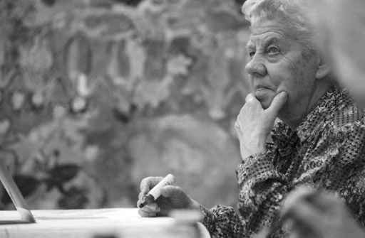 Resident of a nursing home in Munich (Germany)